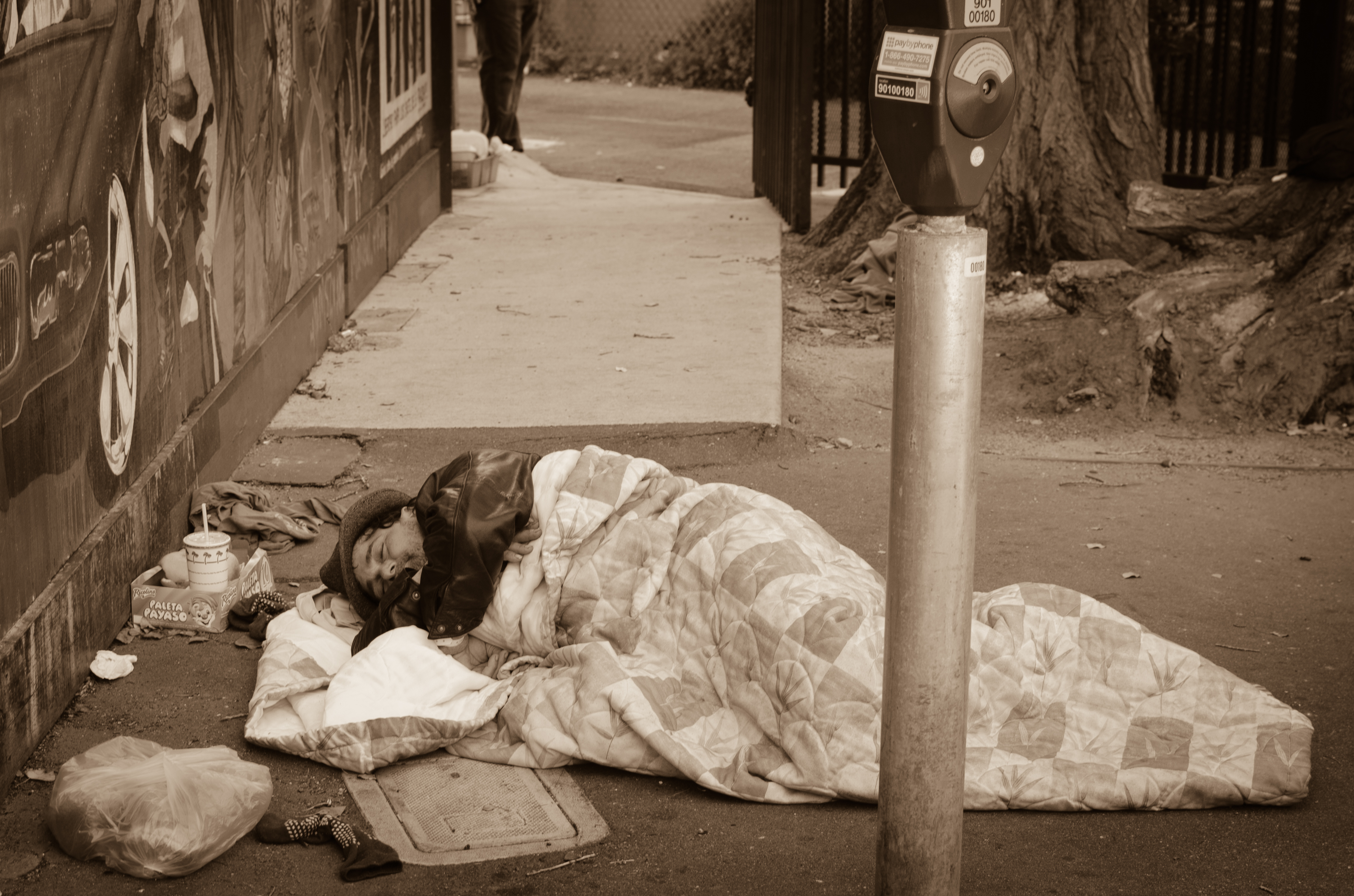 A homeless man sleeping in a parking lot (San Francisco, USA.)